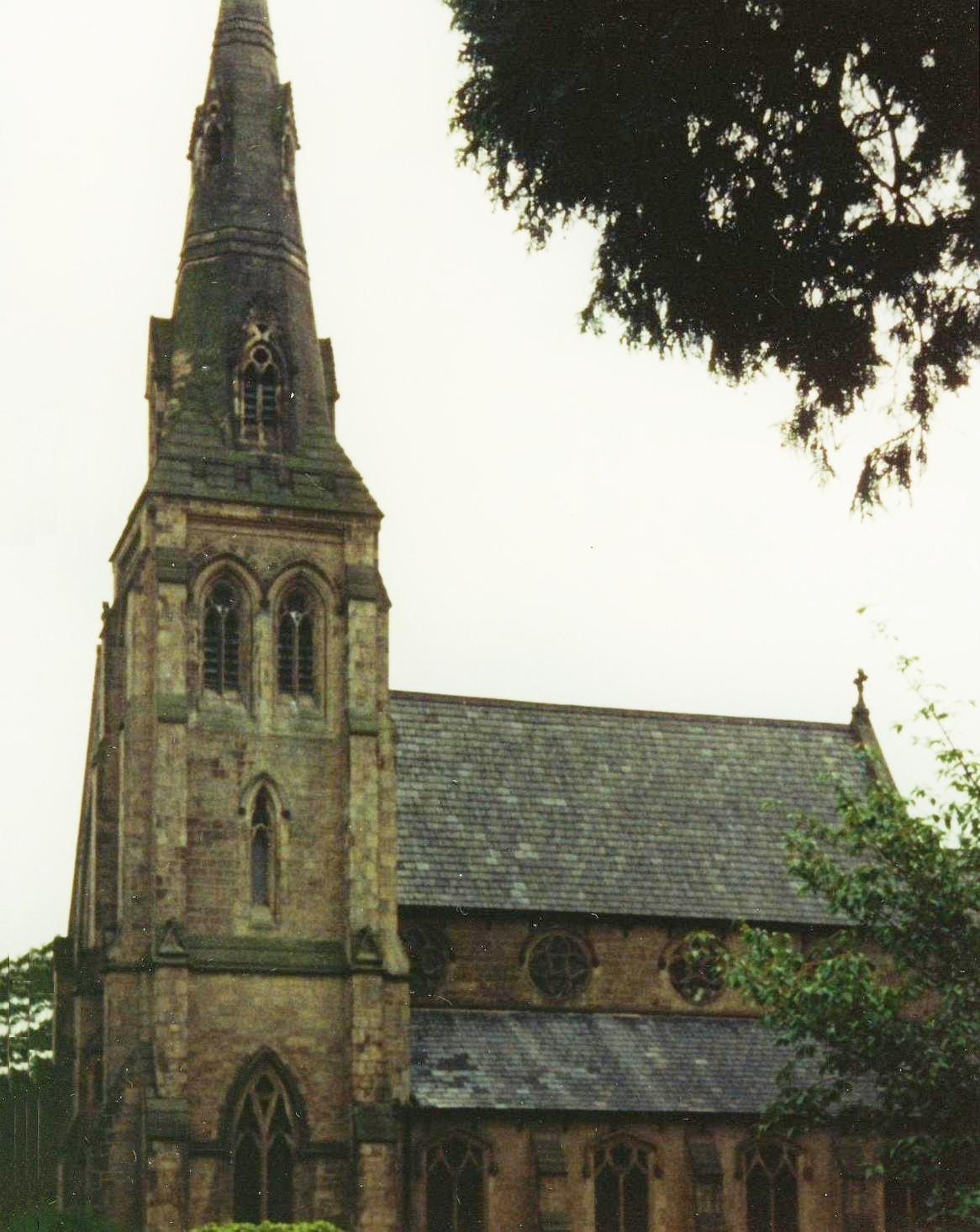 Wrexham RC Cathedral, Wales